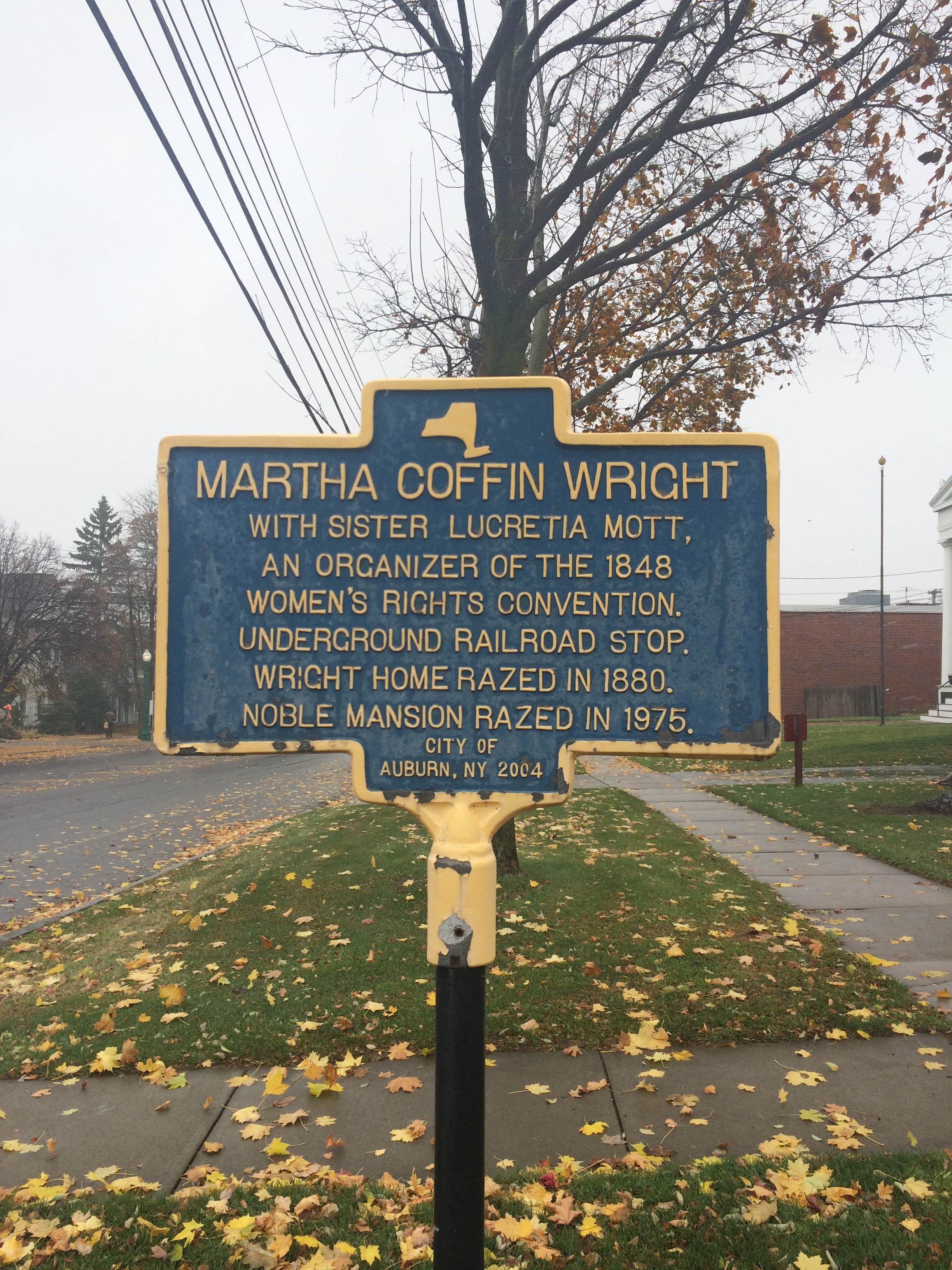 This is a sign of where the Martha Coffin Wright's house originally stood